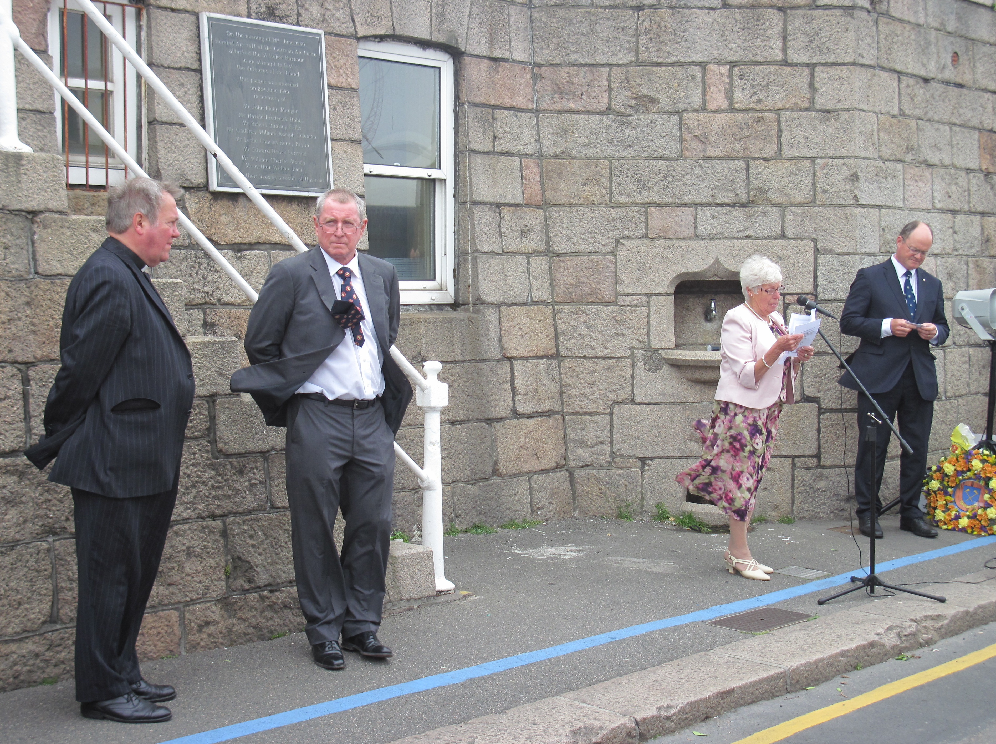 28 June 2013. Anniversary commemoration of the German bombardment of 28 June 1940 - and of the victims. Saint Helier harbour, Jersey.